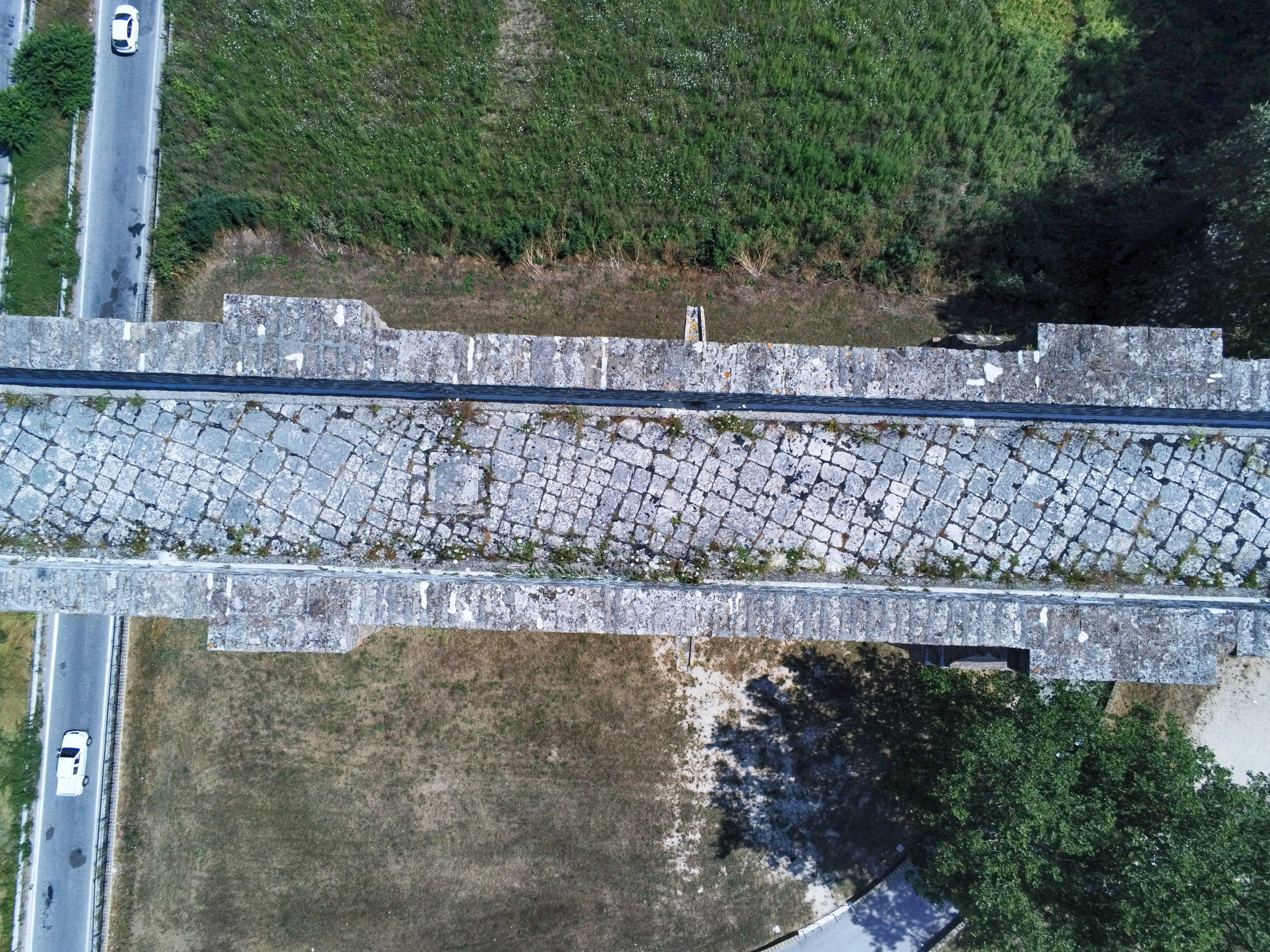 Top view of the Caroline Aqueduct (Aqueduct of Vanvitelli), shoot with a Parrot Anafi drone on July 31st 2019.